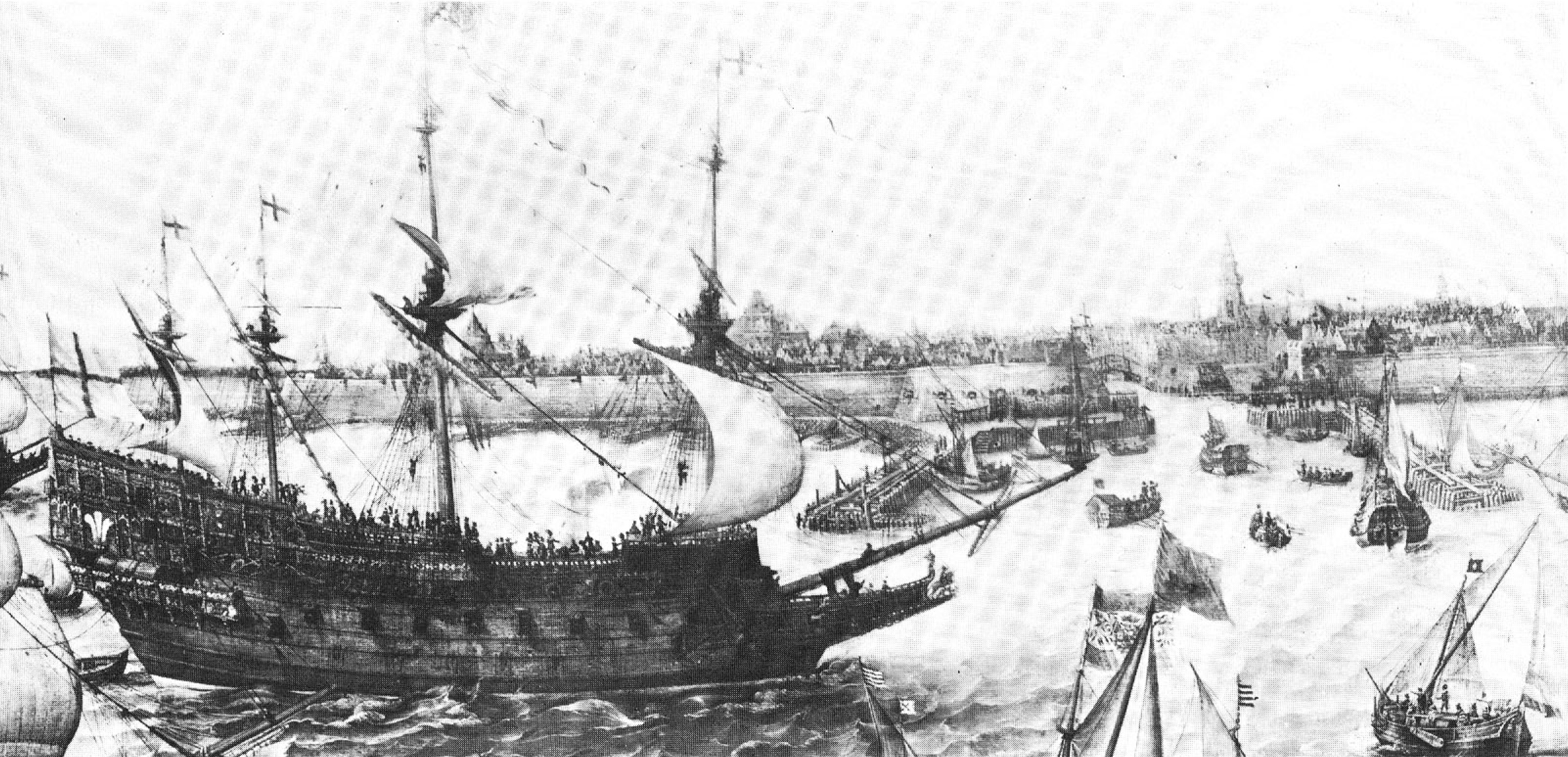 The Prince Royal arriving at Flushing in 1613